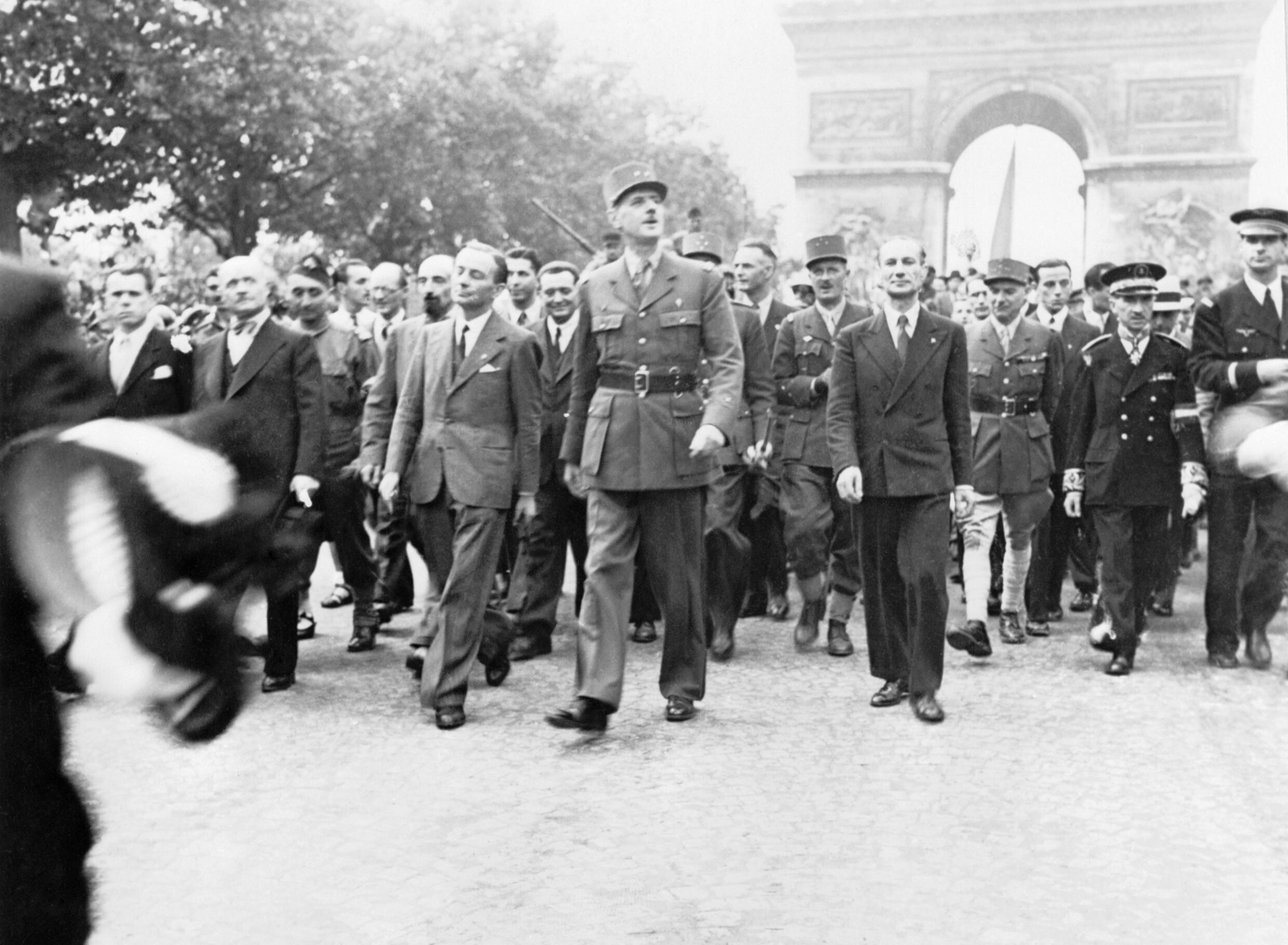 The Liberation of Paris, 25 - 26 August 1944 General Charles de Gaulle and his entourage set off from the Arc de Triumphe down the Champs Elysees to Notre Dame for a service of thanksgiving following the city's liberation in August 1944.